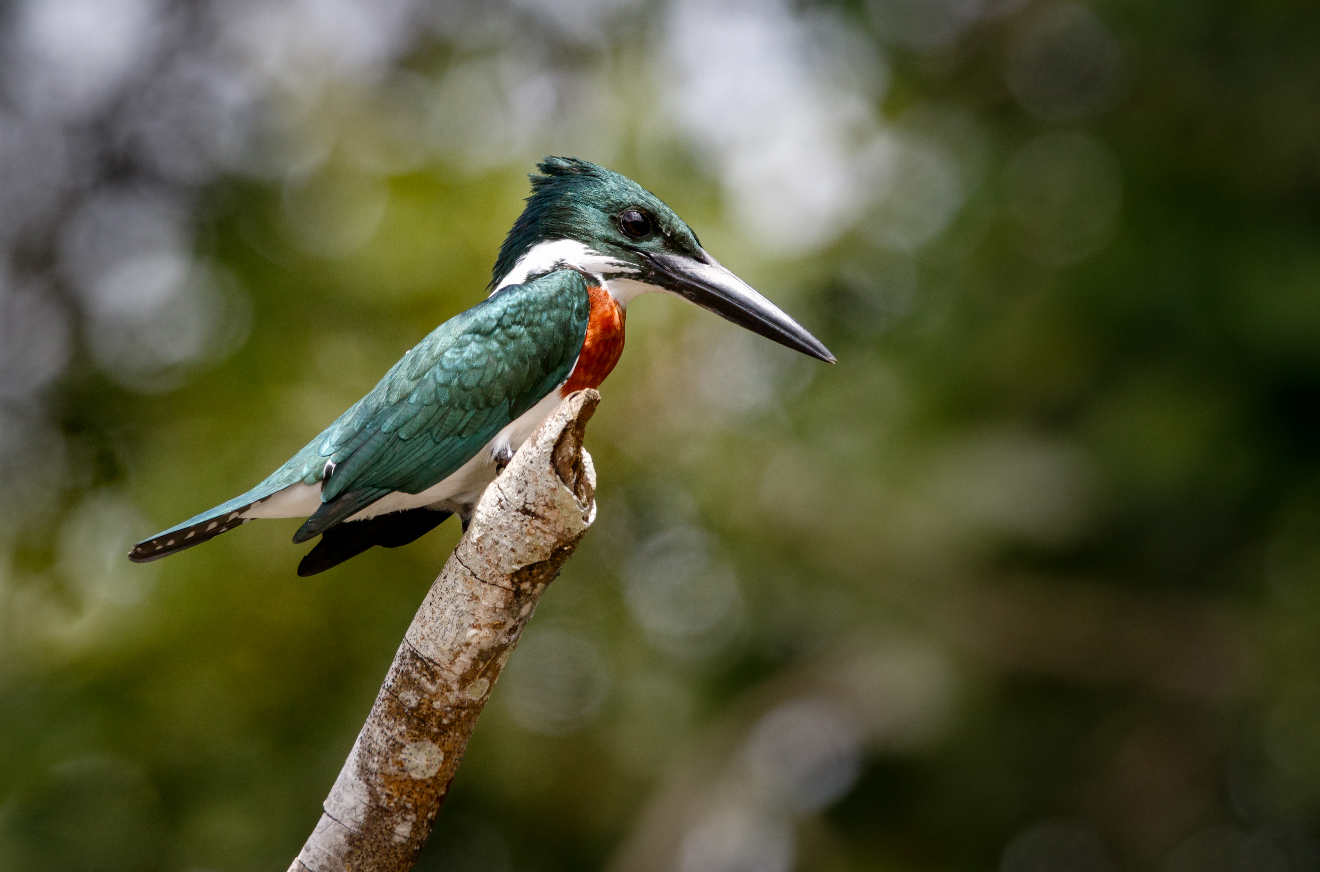 Amazon Kingfisher (Chloroceryle amazona) at Caño Negro, Costa Rica.